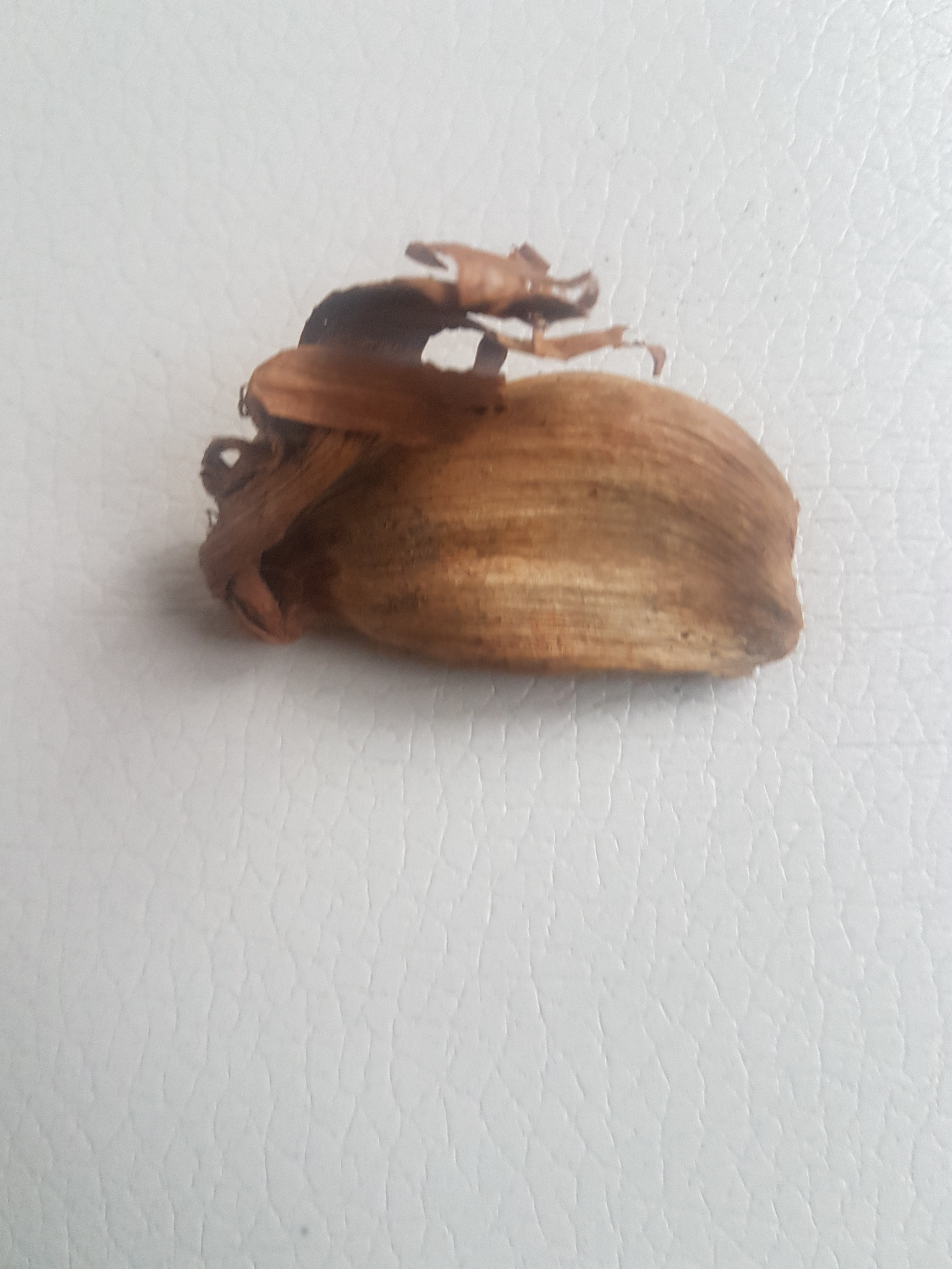 Fruits de Aframomum citratum. - Mbongo mwel